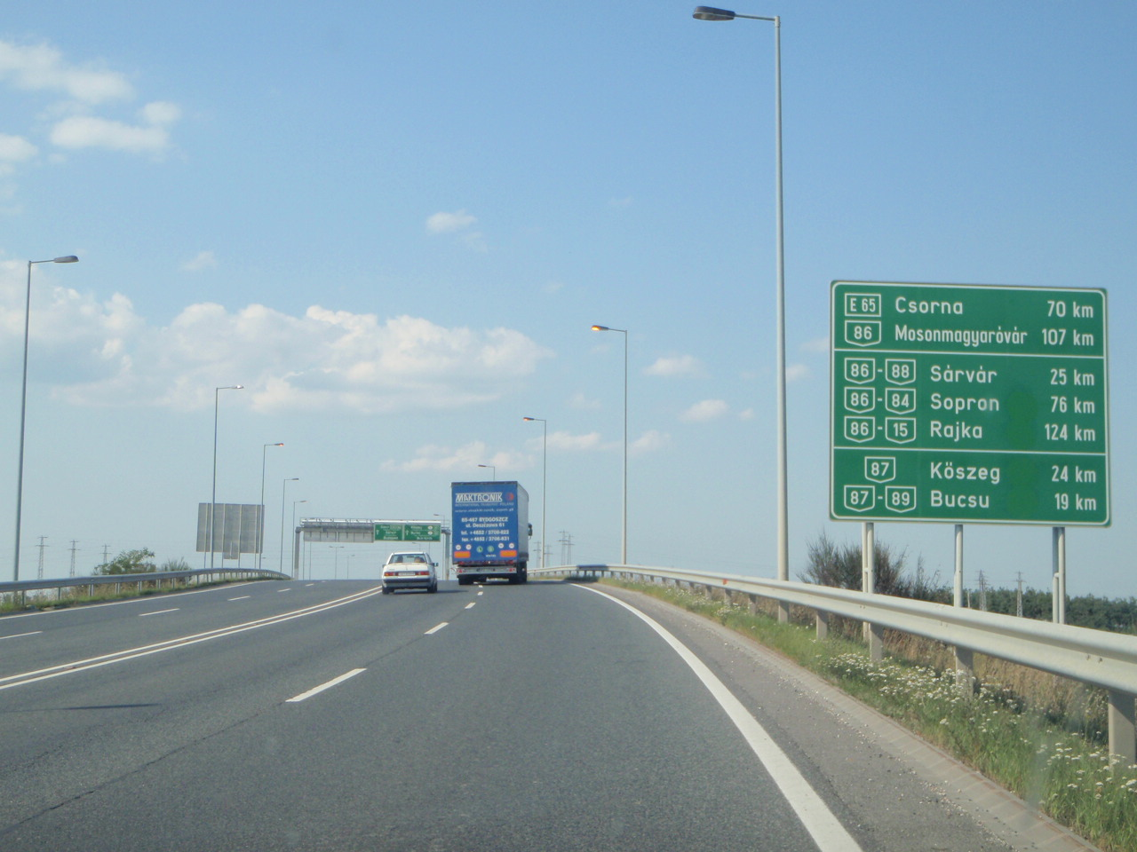 Hungarian state road 86-87, east of Szombathely, Hungary